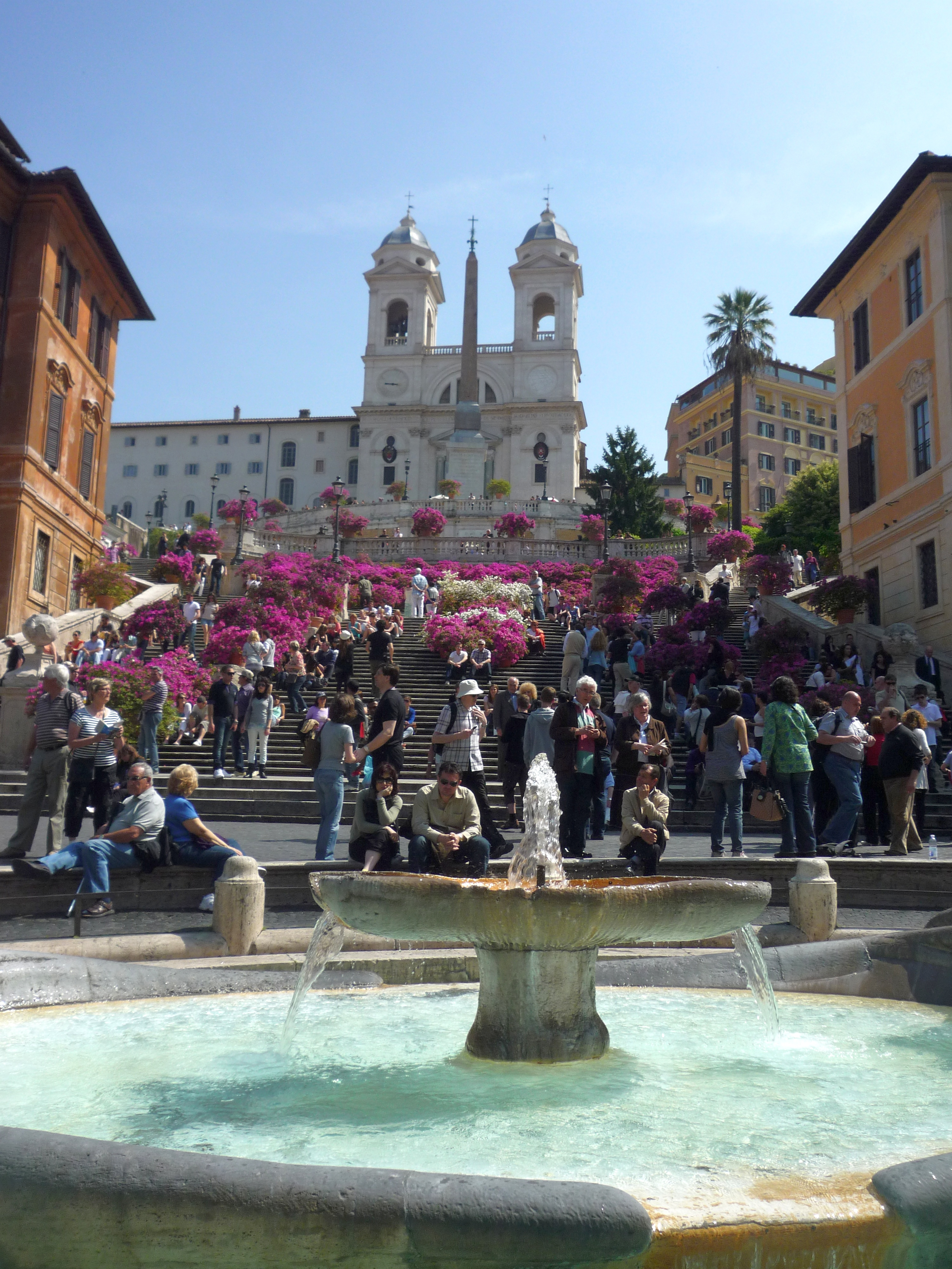 The Spanish Steps and "Trinita dei Monti" church